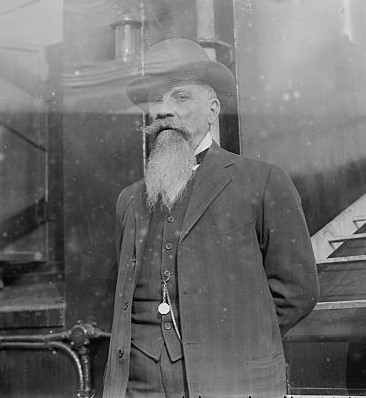 Bernardo Reyes (1850 – 1913), a General in the army of Mexico